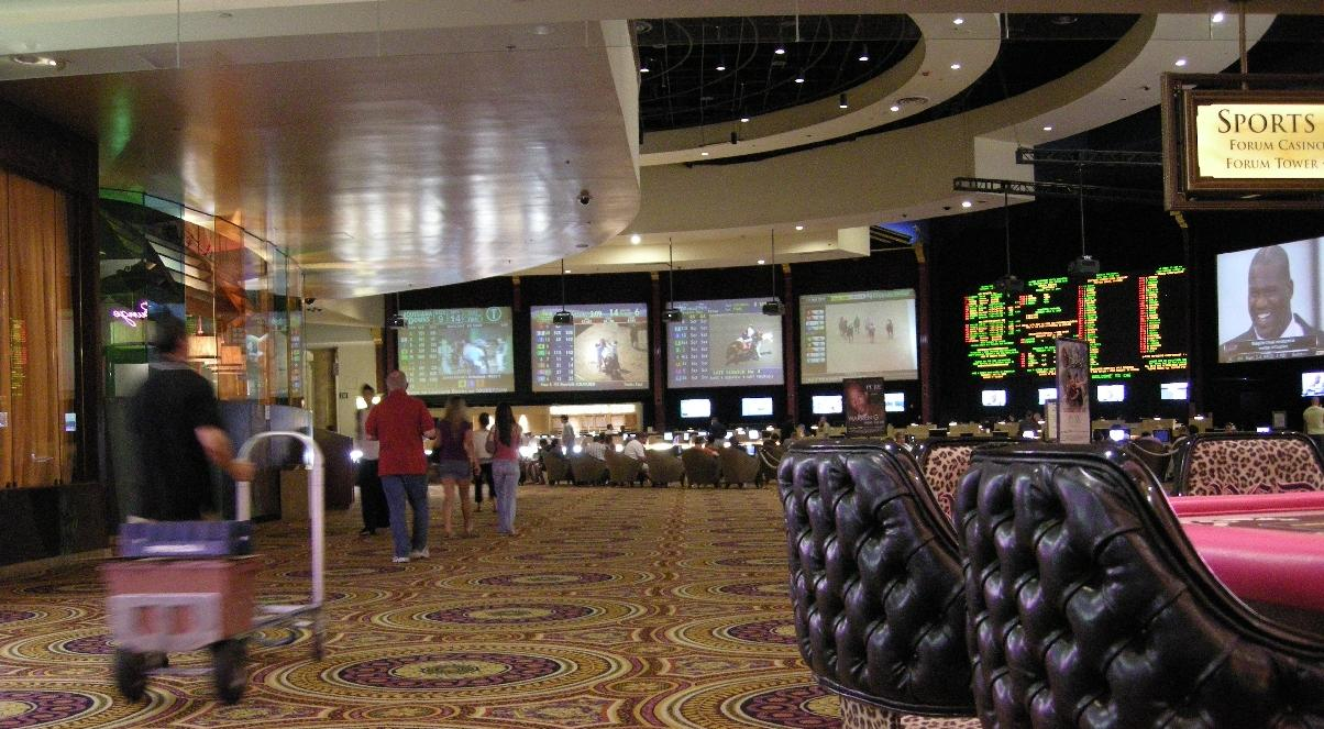 Caesar's Palace, Las Vegas, Inside View (Main Lobby)